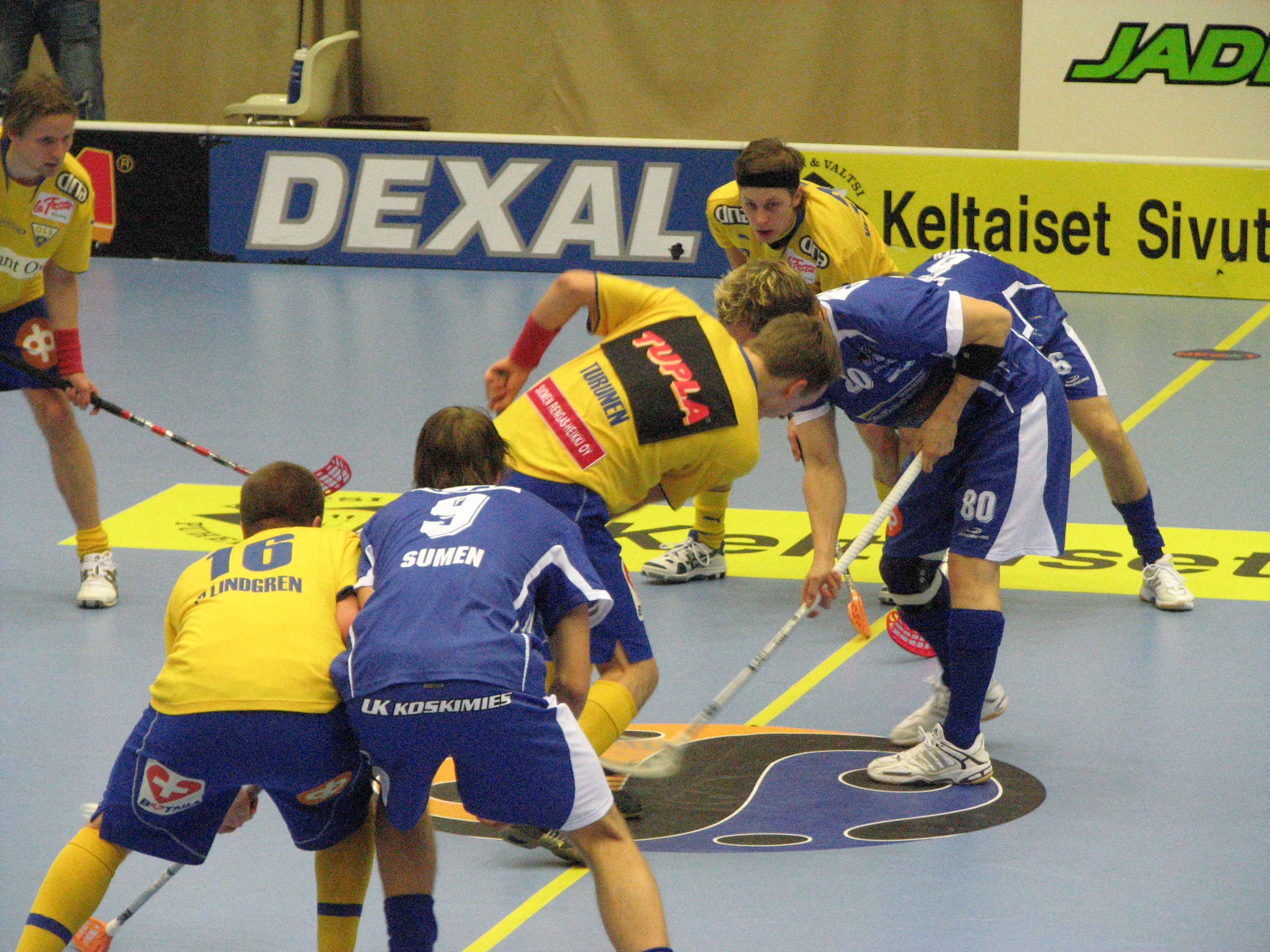 A floorball match